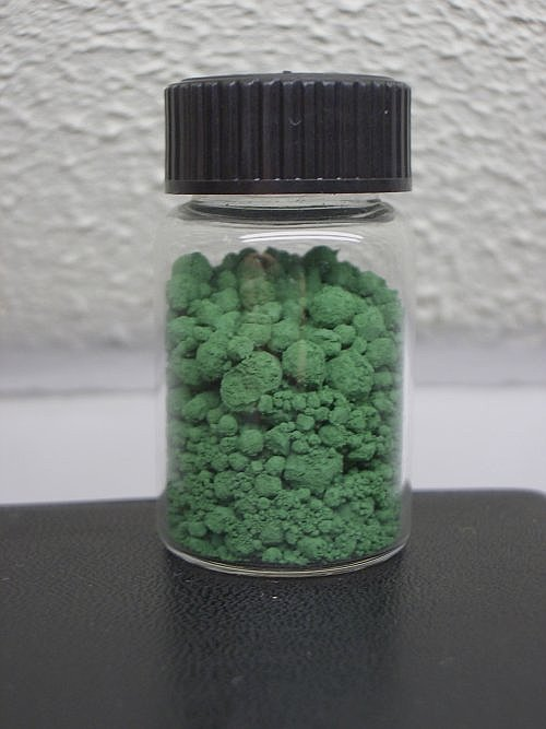 Chromium(III) oxide in a vial